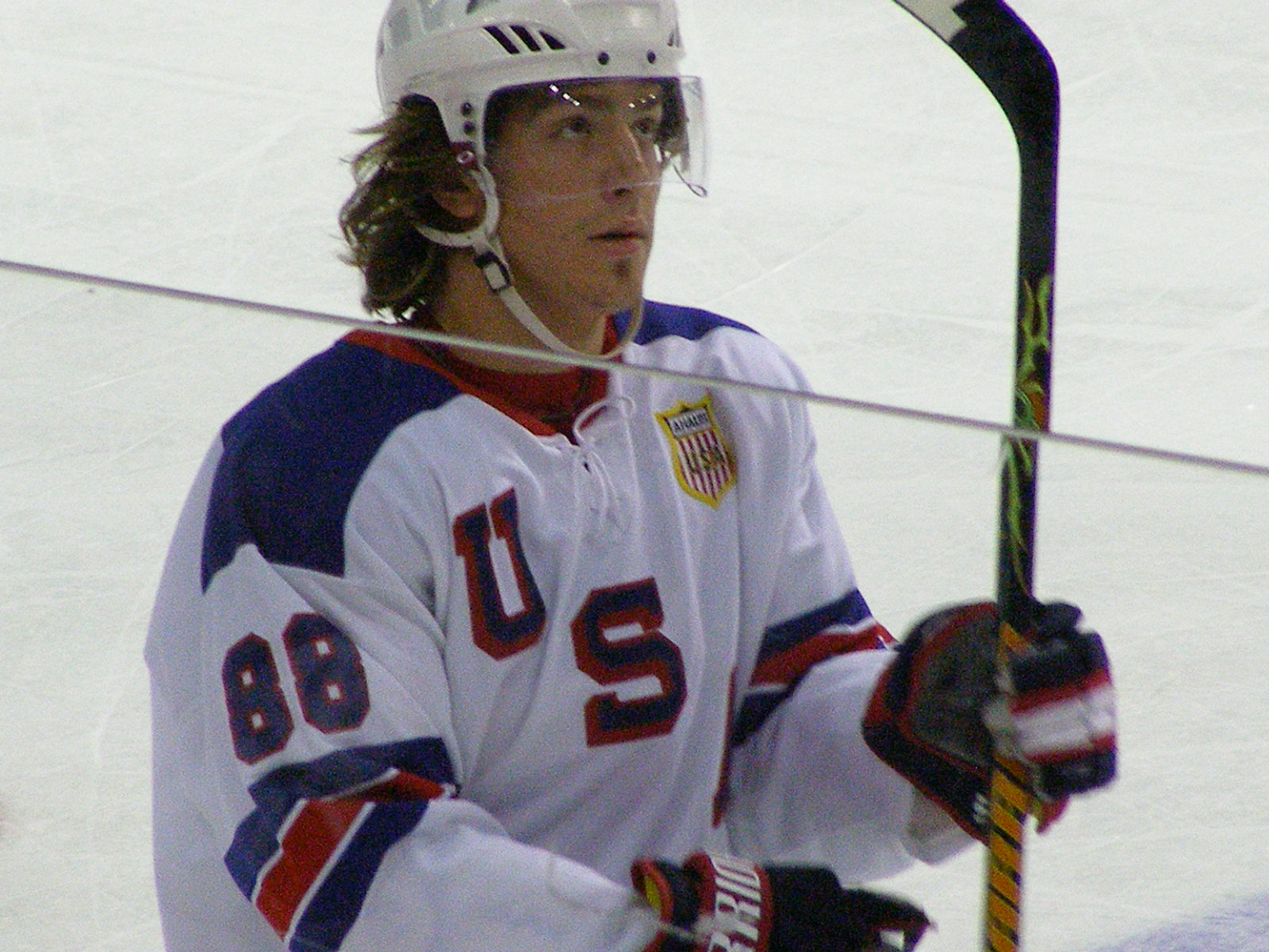 Peter_Mueller /Latvia VS USA (IIHF World Hockey Championship in Halifax NS, May 2 2008)/